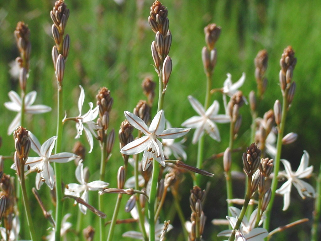 Asphodelus fistulosus — Pink Asphodel. (Liliaceae) A member of the USDA Noxious Weed list, this invasive plant species is spreading through California and the Western United States. At Lake Murray Reservoir near La Mesa, in San Diego County, Southern California. Taken 24 April, 2006 by D.-R. D. Luria